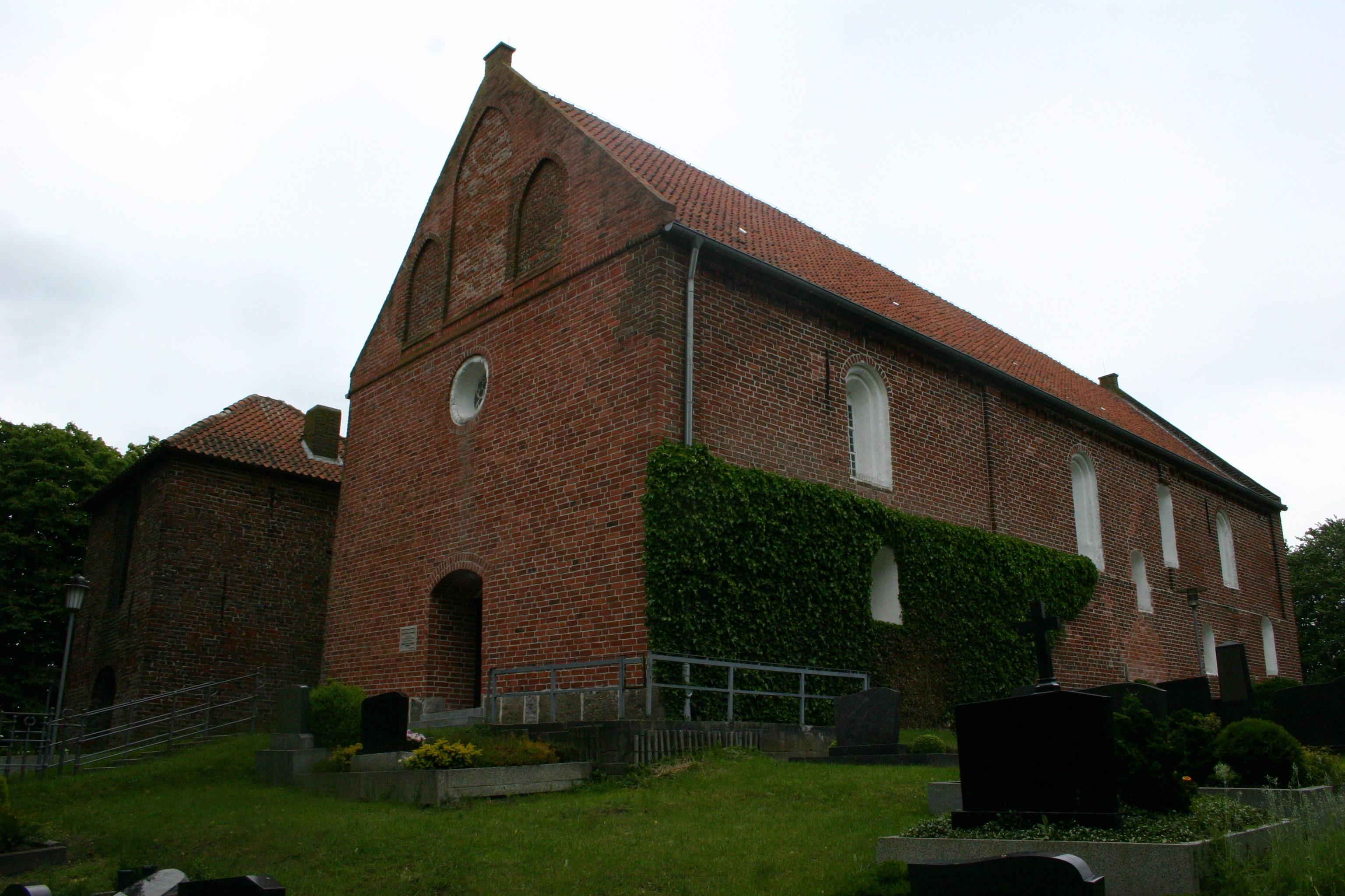 Historic church in Westerholt, district of Wittmund, East Frisia, Germany